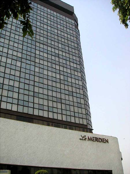 Le Meridien, New Delhi, India